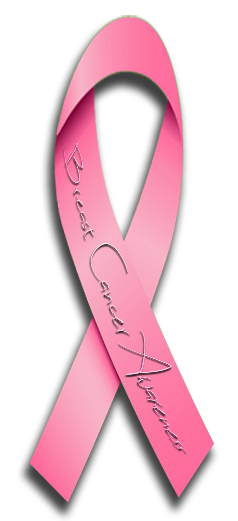 there's plenty of days left in October for people to create their own tributes. please feel free to use this image in any October, Think Pink, Breast Cancer Awareness images you might want to create. this particular image uploaded to flickr as a .jpg, of course, so it has a white background. if you would like a .png version on transparent background where you can see behind the ribbon you need only download the original size of the image.